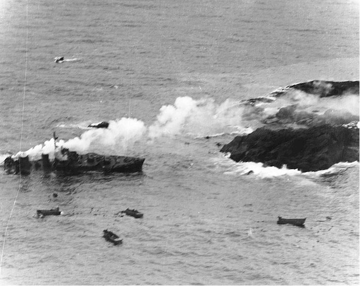 The U.S. Navy destroyer USS Worden (DD-352) being abandoned, after going aground in Constantine Harbor during the occupation of Amchitka, Aleutian Islands, Alaska, on 12 January 1943. Note men in the water near the landing craft in the foreground, and steam pouring from Worden's stacks and midships area. Fourteen of her crewmen were lost in the icy waters in this incident.